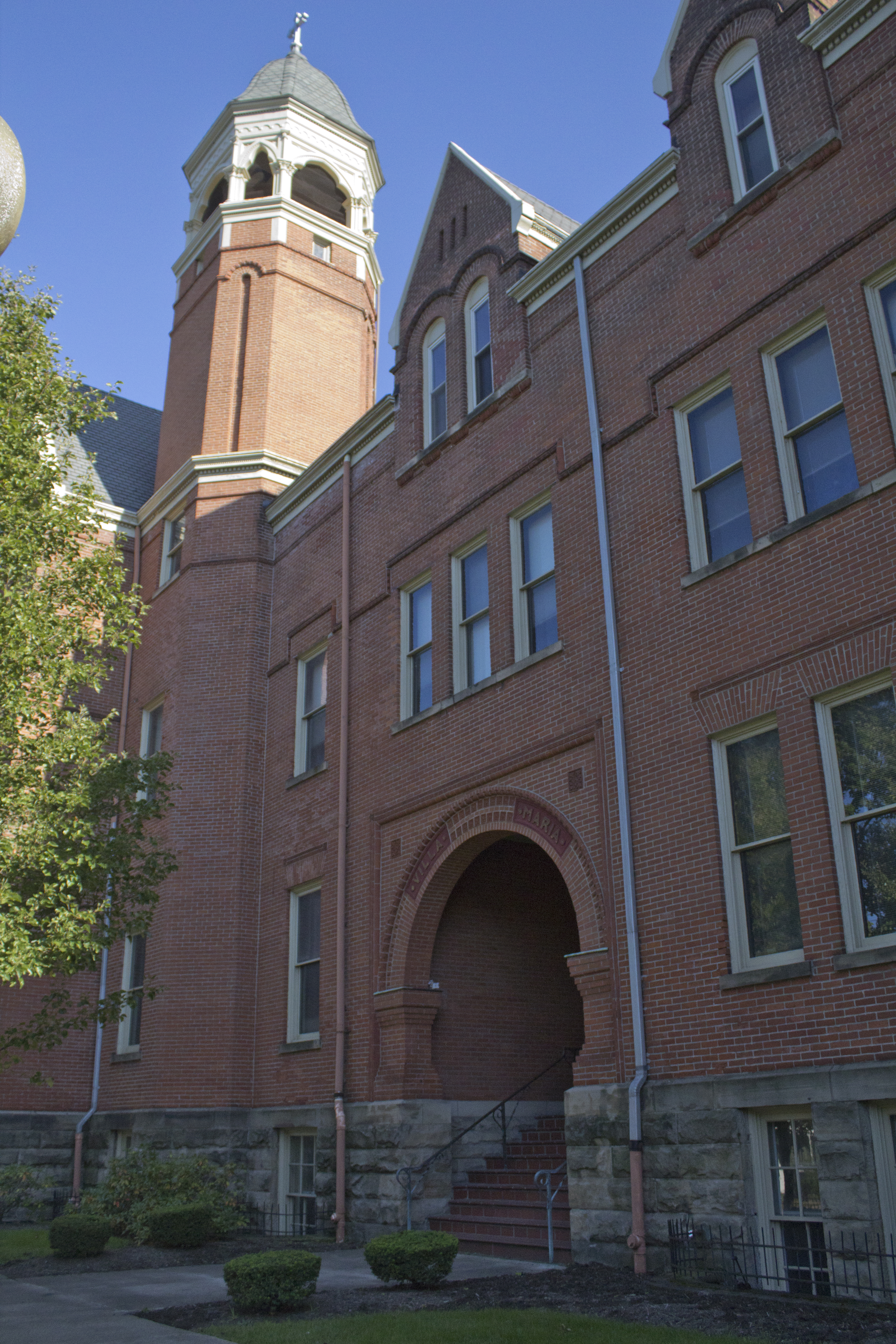 Villa Maria Academy Front Entrance to the former school.